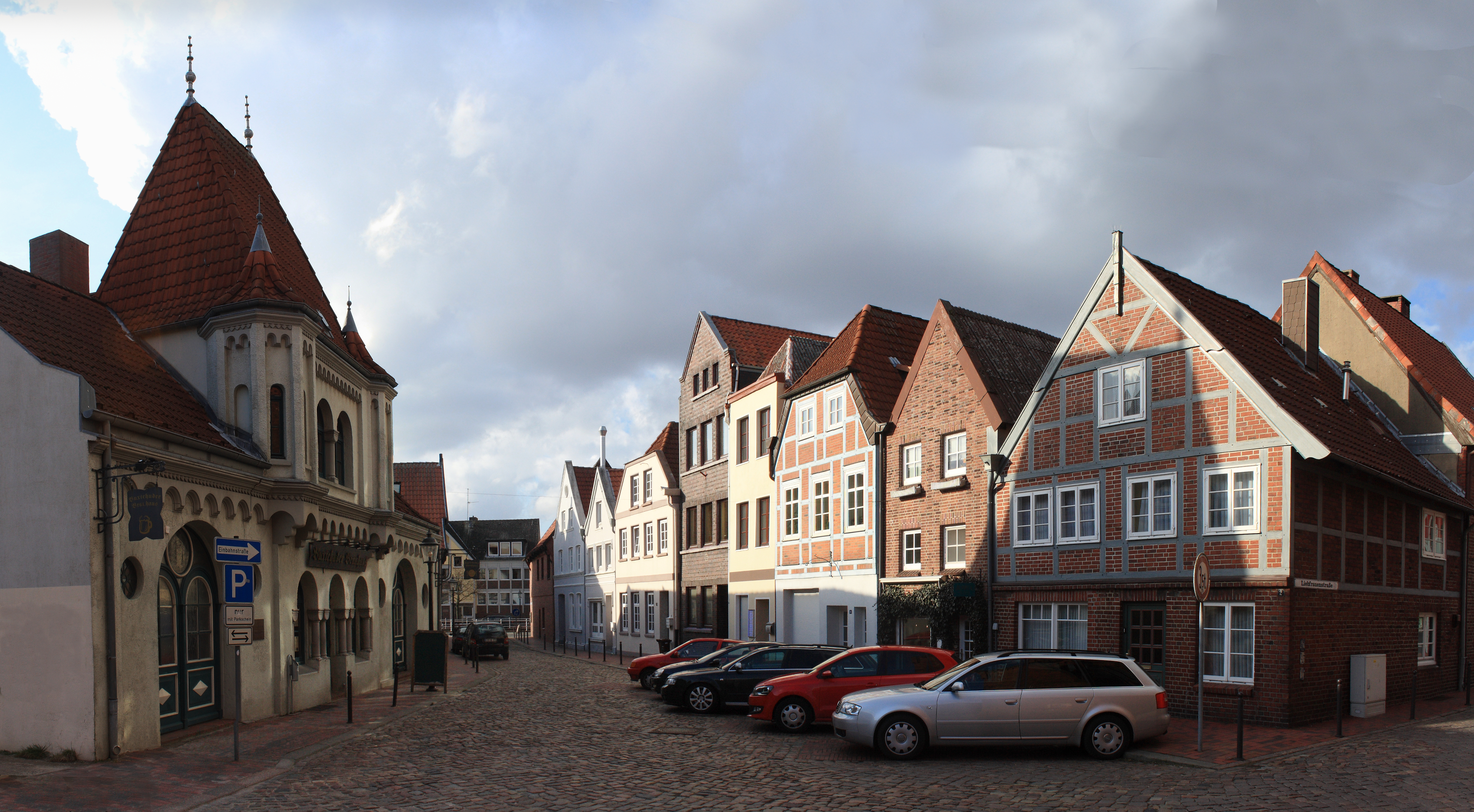 Brewery and Kirchenstraße in Buxtehude